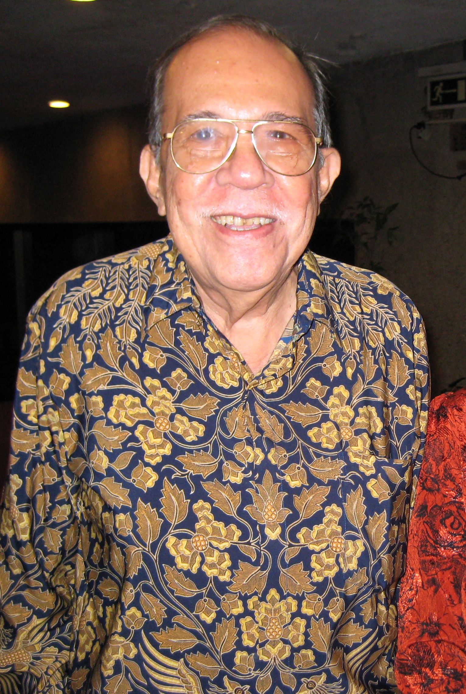 Eddie Romero, film director and National Artist